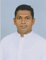 our principal.